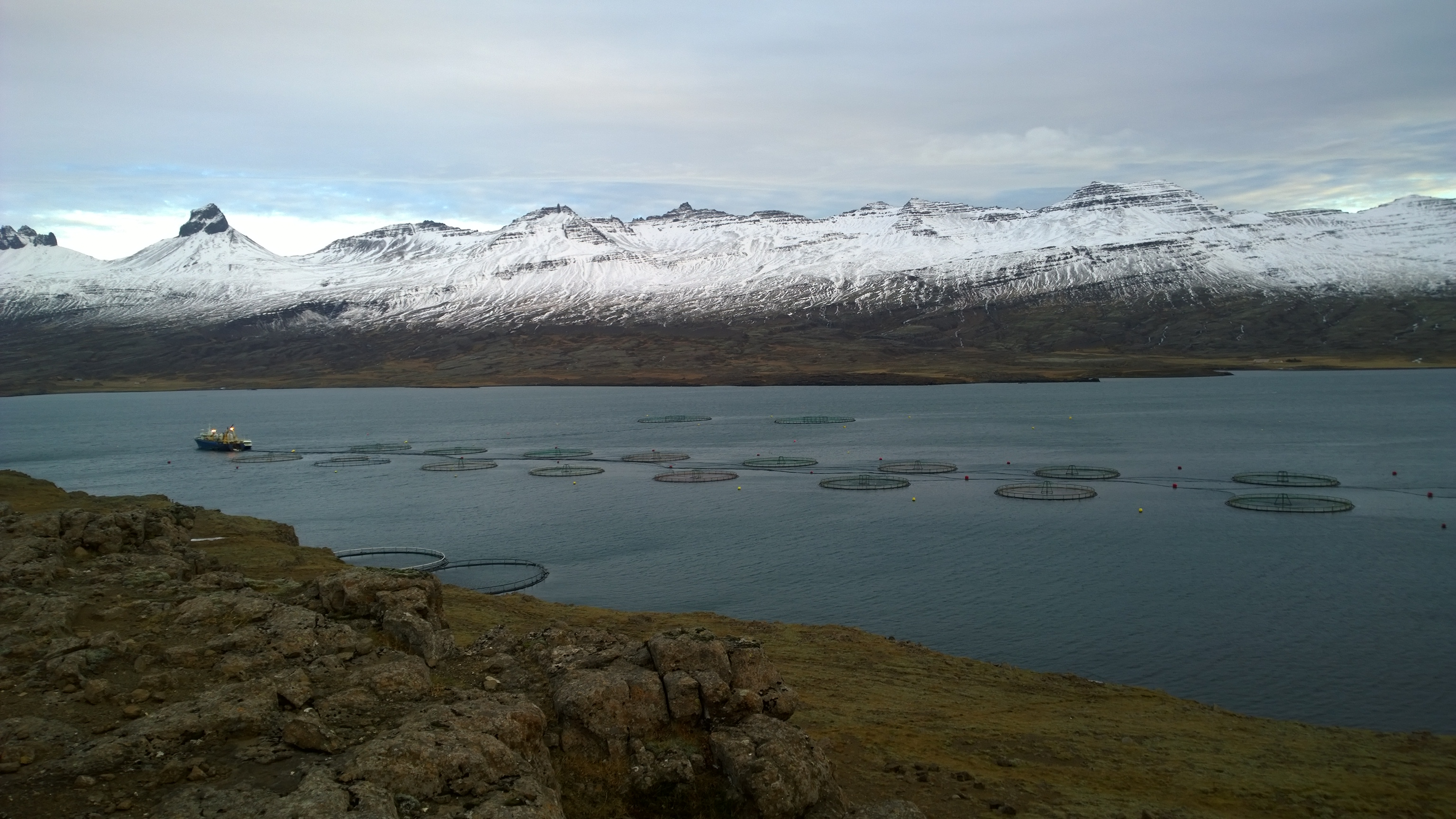 A fish farm in the fjord at Djúpivogur, Sudur-Mulasysla, Iceland.